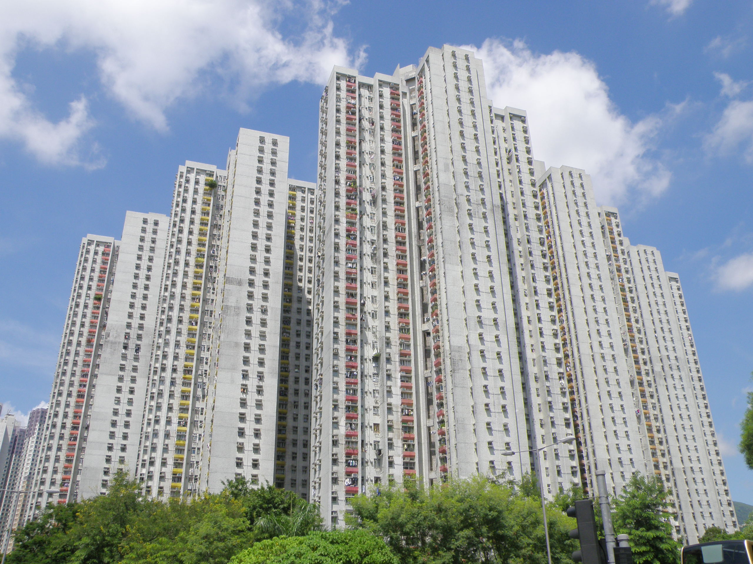 Ying Ming Court in Po Lam, Hong Kong.